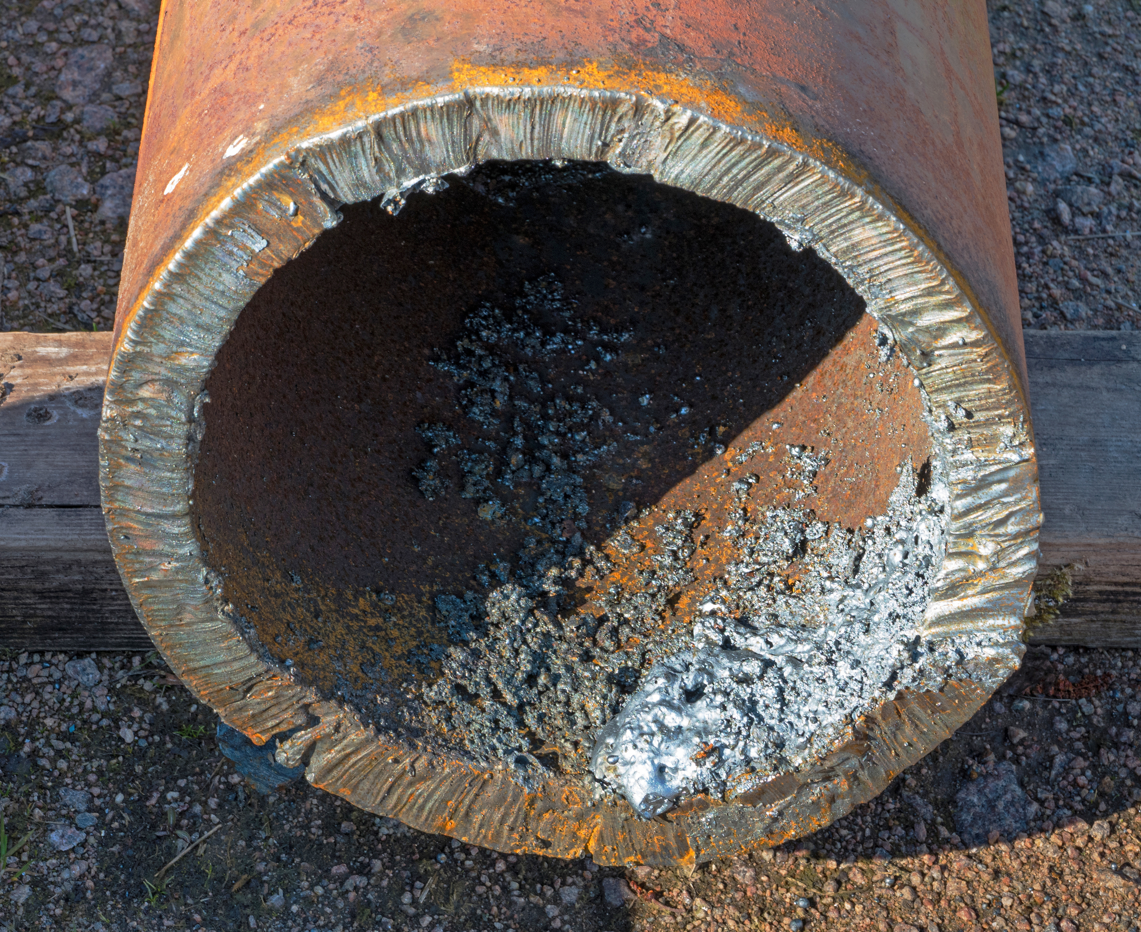 A torch-cut iron pipe at a pipe welding firm in Gåseberg industrial area, Lysekil Municipality, Sweden. Metal molten by the torch is visible inside the pipe. The pipe is approximately 20–25 cm (7.9–9.8 in) in diameter.